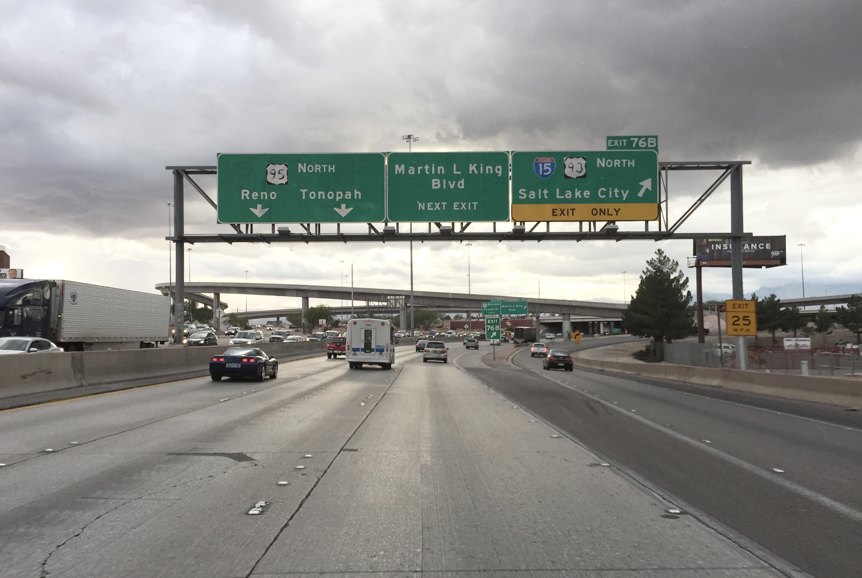 View north at the north end of Interstate 515 (which continues north as U.S. Route 95 towards Tonopah and Reno) at Exit 76B (Interstate 15 and U.S. Route 93 north, Salt Lake City) in Las Vegas, Nevada